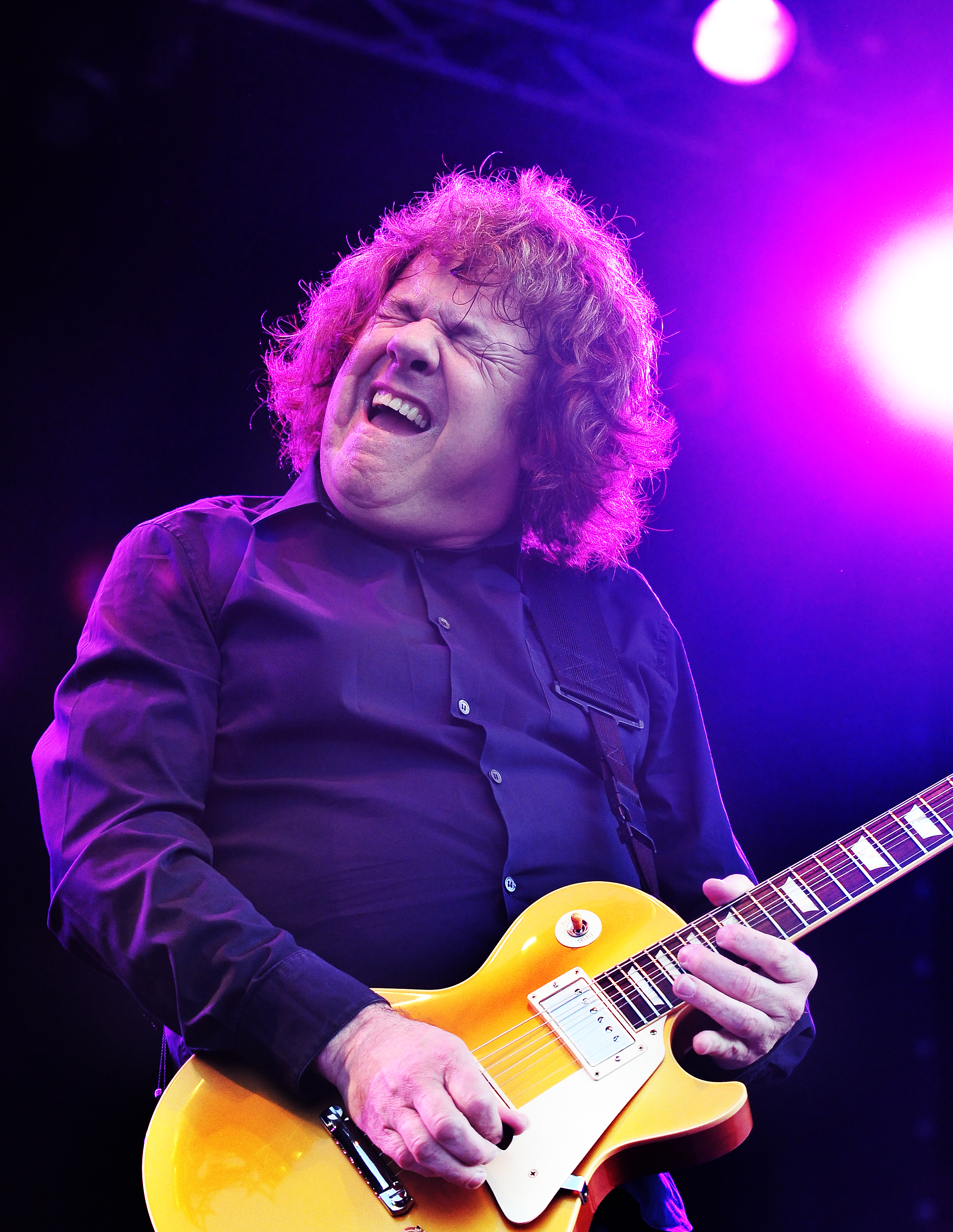 Gary Moore playing at the Beach of Pite-Havsbad, outside the city of Piteå in Sweden.